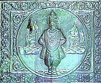 Vithoba image on the temple door of Sree Balaji Temple, Goa. Vithoba image is cropped from Image:Dashaavathaaram...ദശാവതാരം....jpg, which depicts him with the other 9 avatars of god Vid=shnu. Shot by Nibu with his mobile cam.